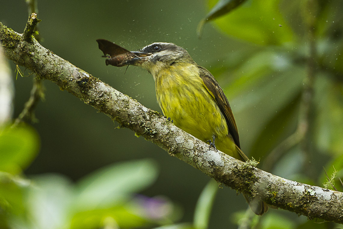 Golden-crowned Flycatcher - Colombia_S4E8844